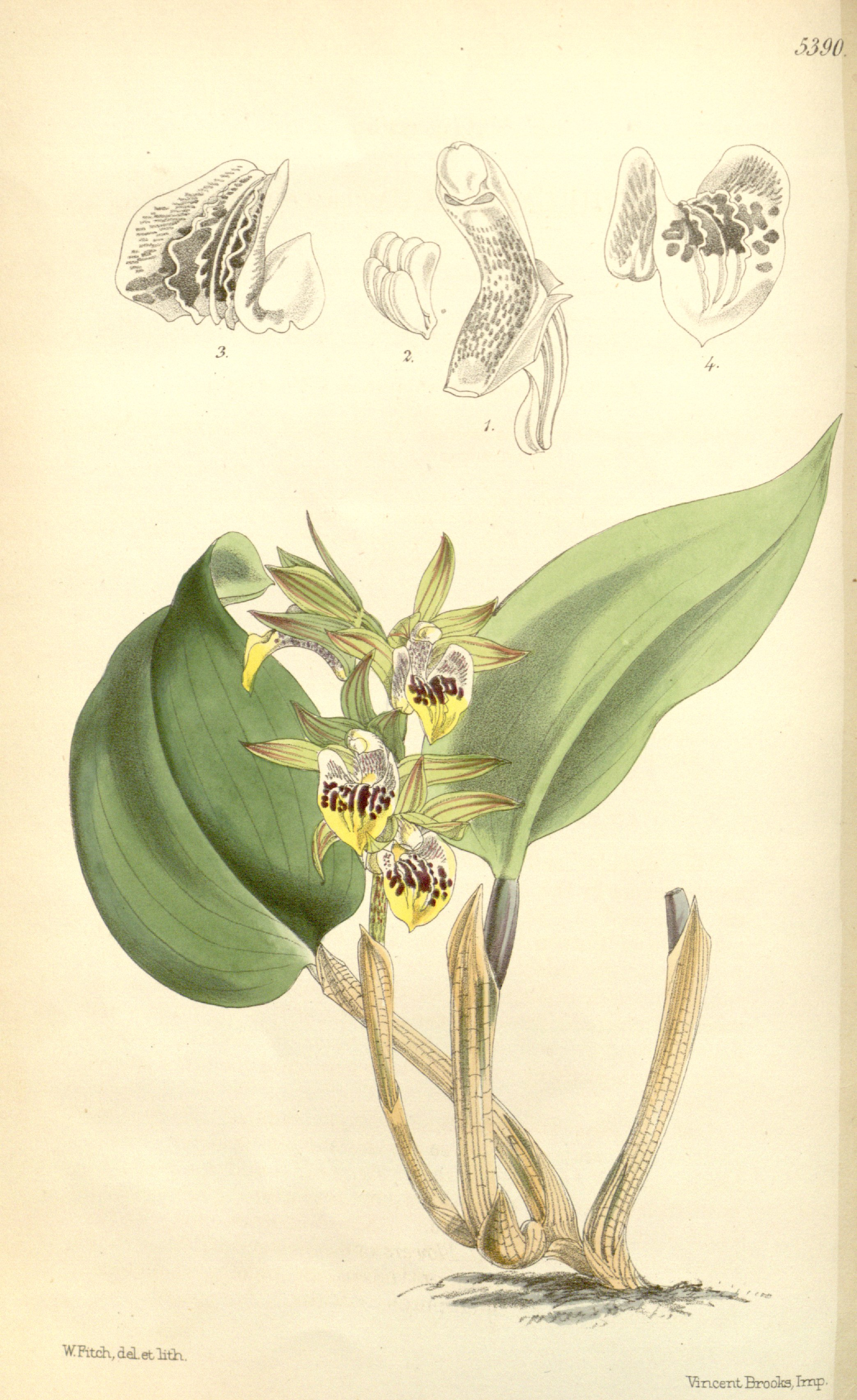 Illustration of Tainia scapigera (syn. of Nephelaphyllum scapigerum)